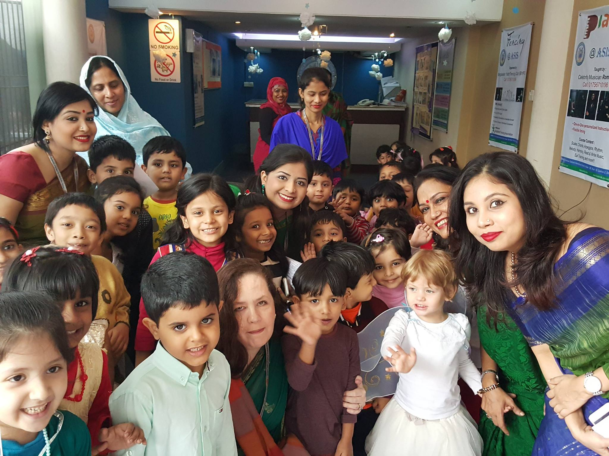 Winter Fair at ASIS